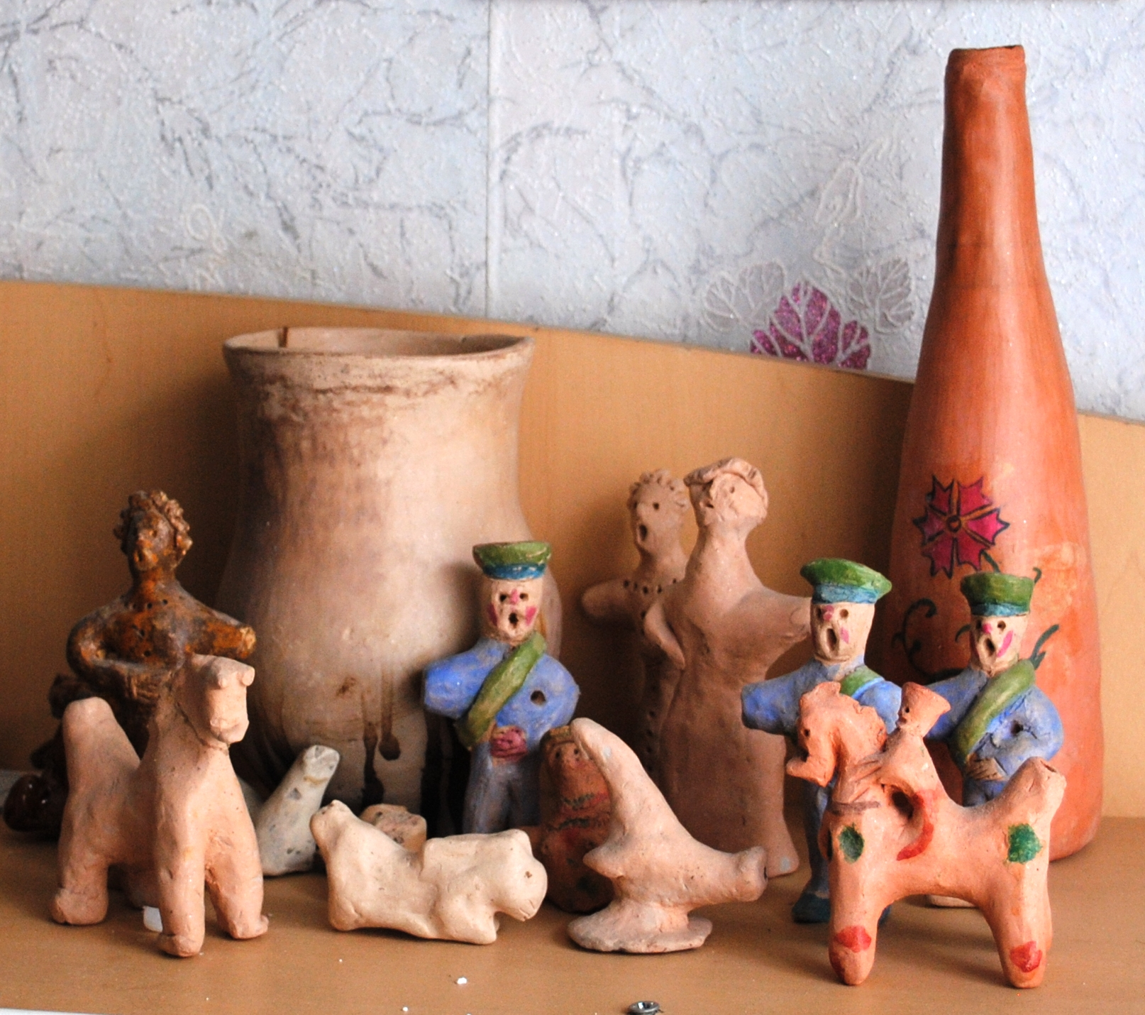 Pleshkovo